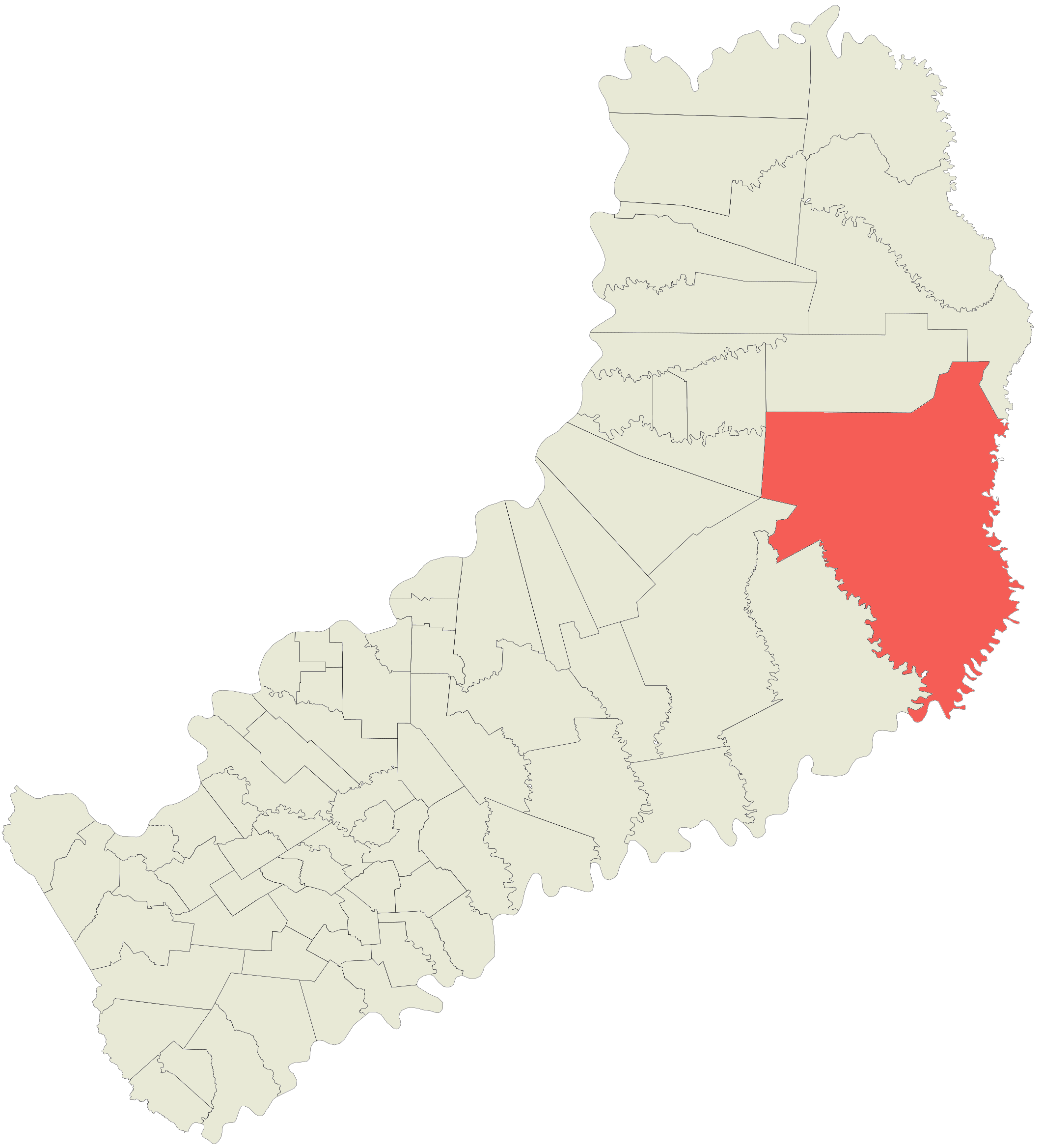 A map of San Pedro's municipio in Misiones province, Argentina. The big point is San Pedro town, the little points are (from up to down): Piñalito Sur, Tobuna, Cruce Caballero and Paraíso towns.